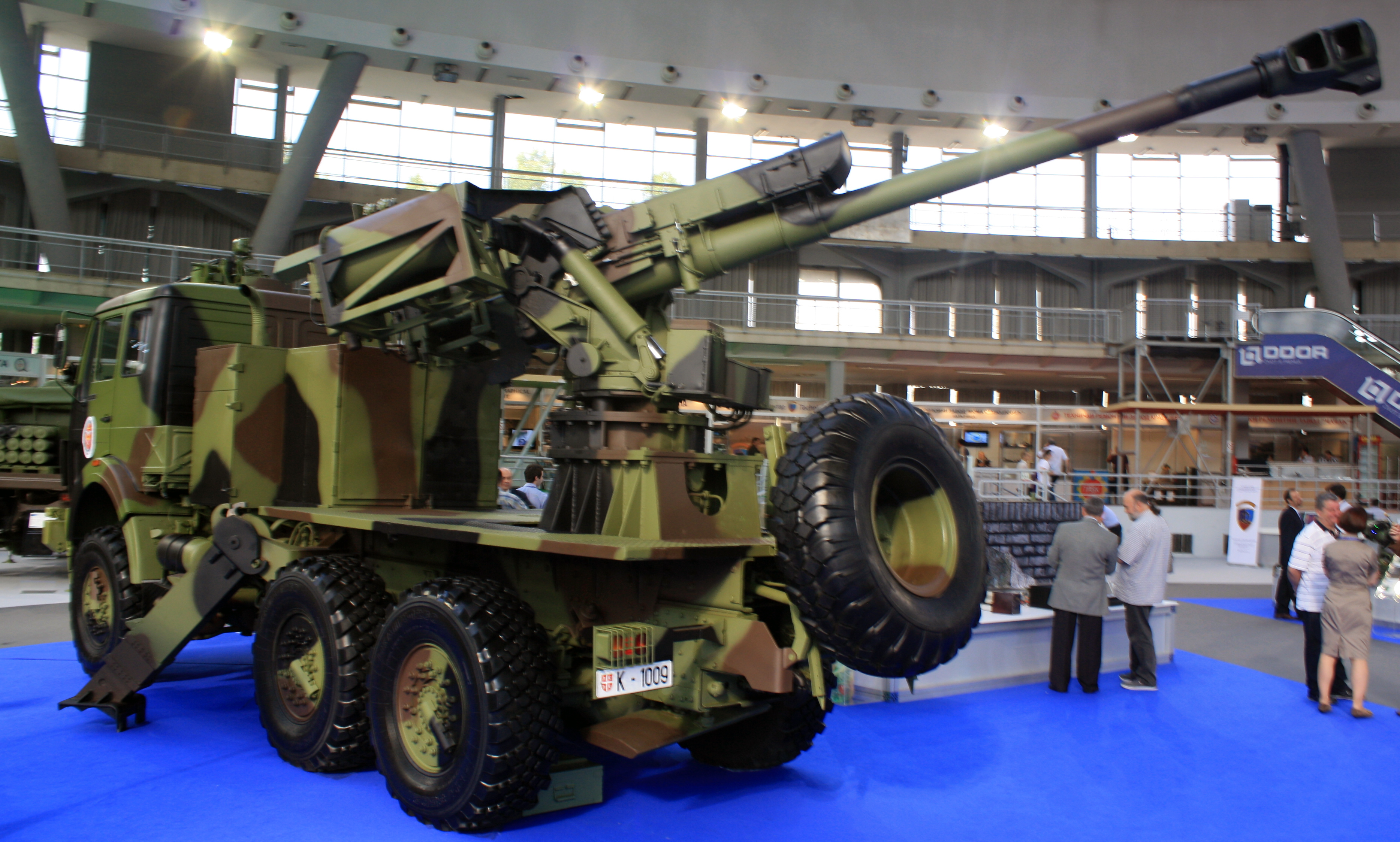 SORA self-propelled 122mm gun-howitzer on display at "Partner 2013" military fair.